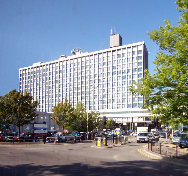 Hull Royal Infirmary, Kingston upon Hull in the East Riding of Yorkshire, England.Picture taken from Anlaby Road.